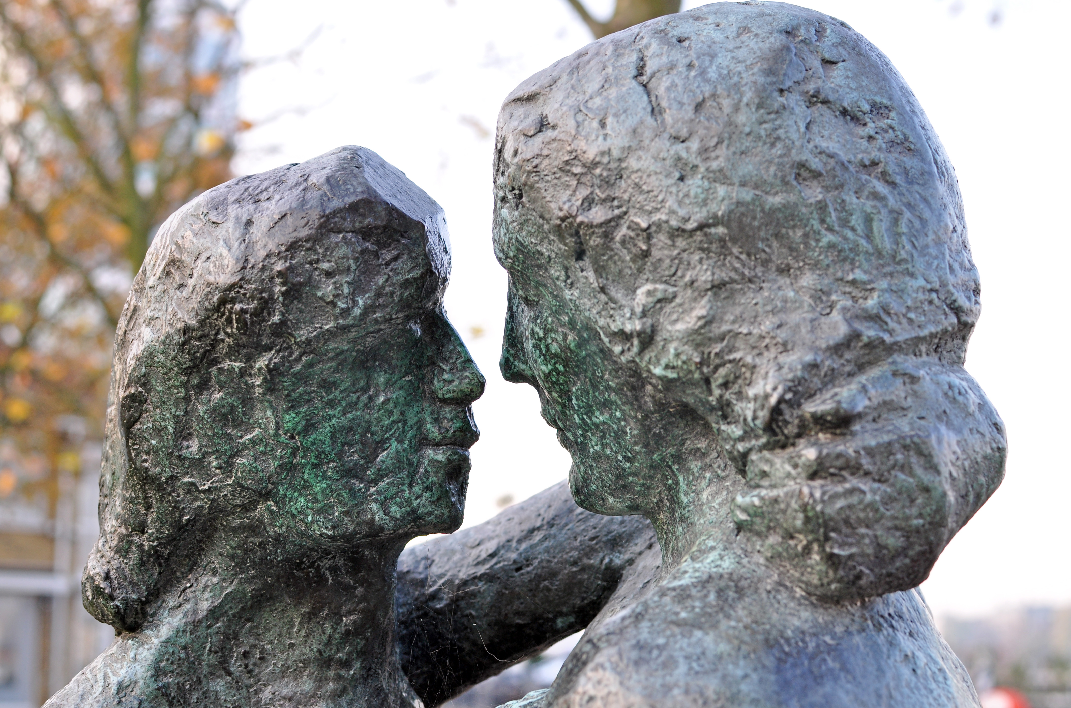 Detail of sculpture entitled Fall by Alan Thornhill (b. 1921). Bronze, approx. 1.5m high, installed 2008. One of several figurative sculptures by this artist on the Putney Sculpture Trail, London Borough of Wandsworth. ( CC-by-SA which means anyone can freely use any size of this image anywhere, provided accompanied by the credit: Image: George Rex.)